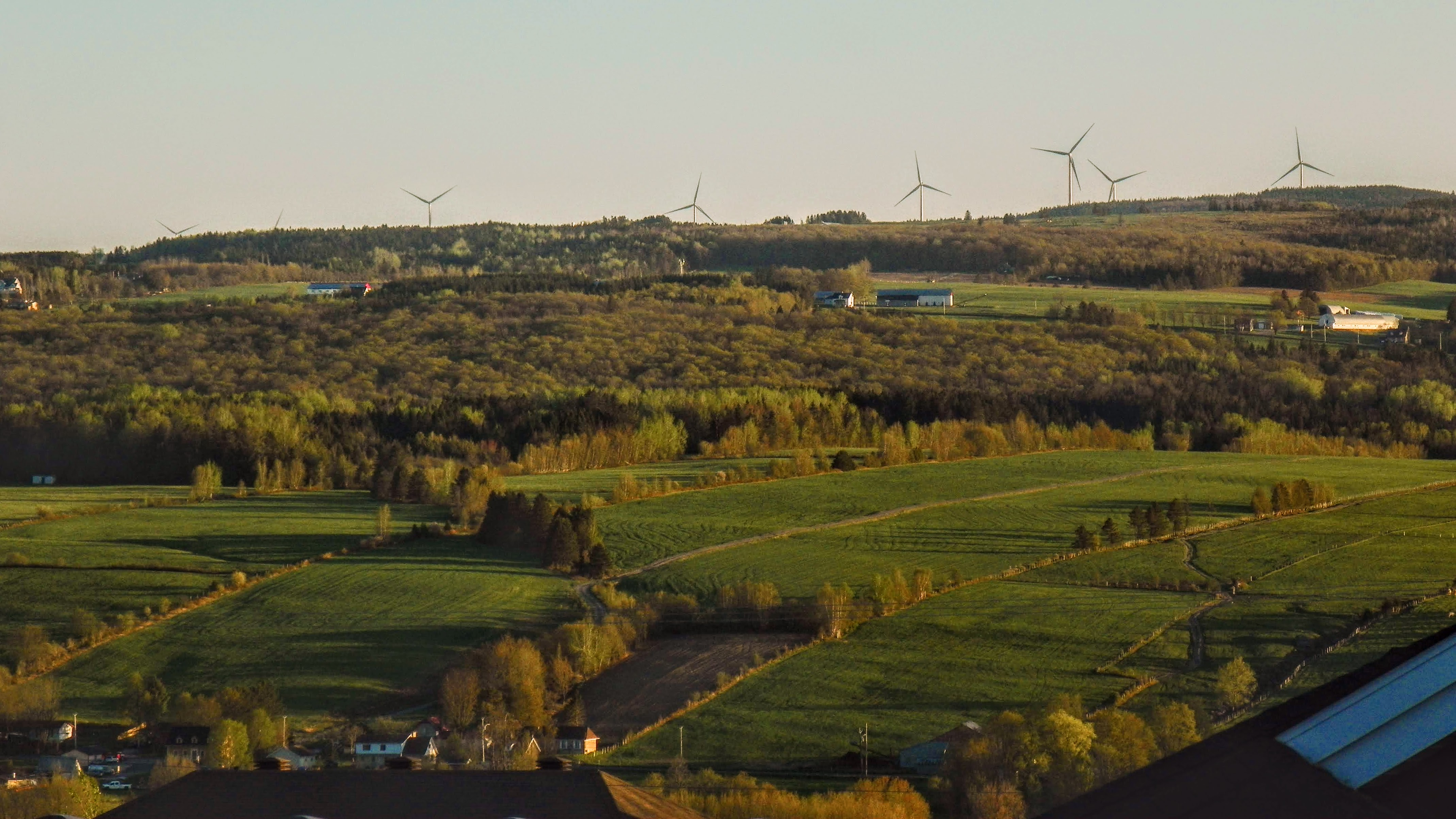 Nouvelle-Beauce landscape : Chaudière River valley, agroforestry in Sainte-Marie and Saint-Elzéar